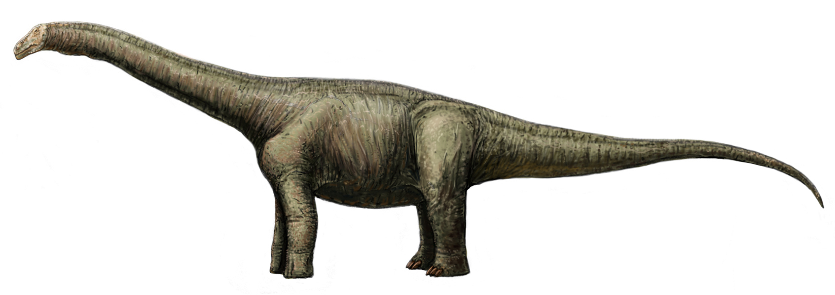 Opisthocoelicaudia skarzynskii. Based on skeletal restoration in G. S. Paul 2010, posture based on Schwarz et al. 2007. Head based on Nemegtosaurus.